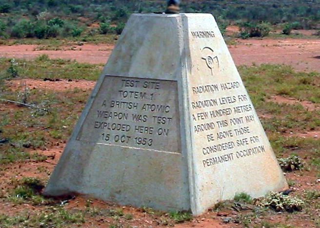 Site of first atomic test on mainland Australia, known as Totem One. Photo taken by Gazjo on 1st January 2006